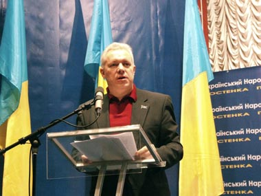 Valeriy Asadchev, Ukrainian politician, at the congress of Ukrainian People's Block of Kostenko and Plyusch